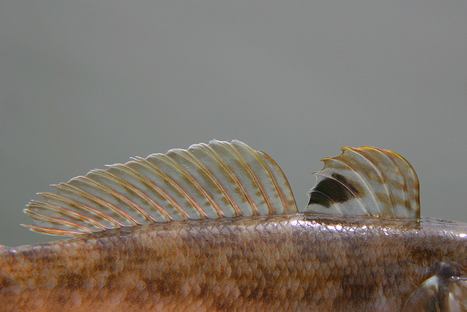 Black dot features round goby